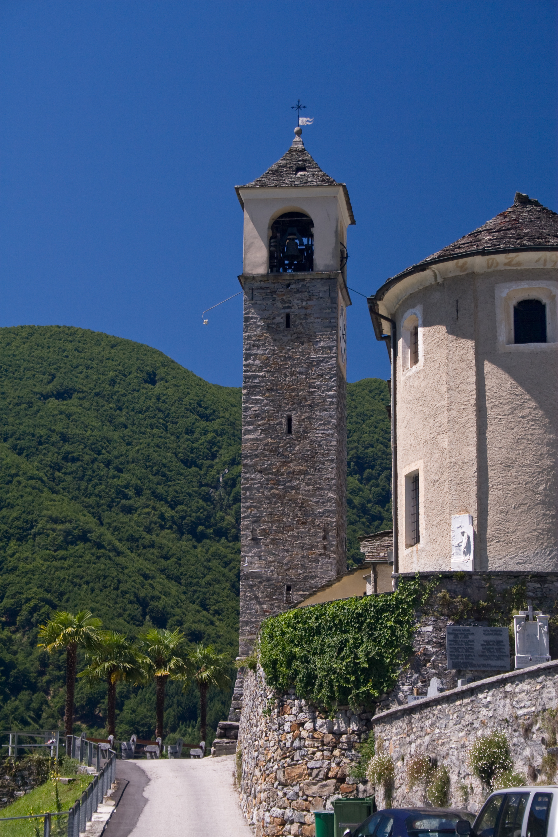 Spire of Mergoscia